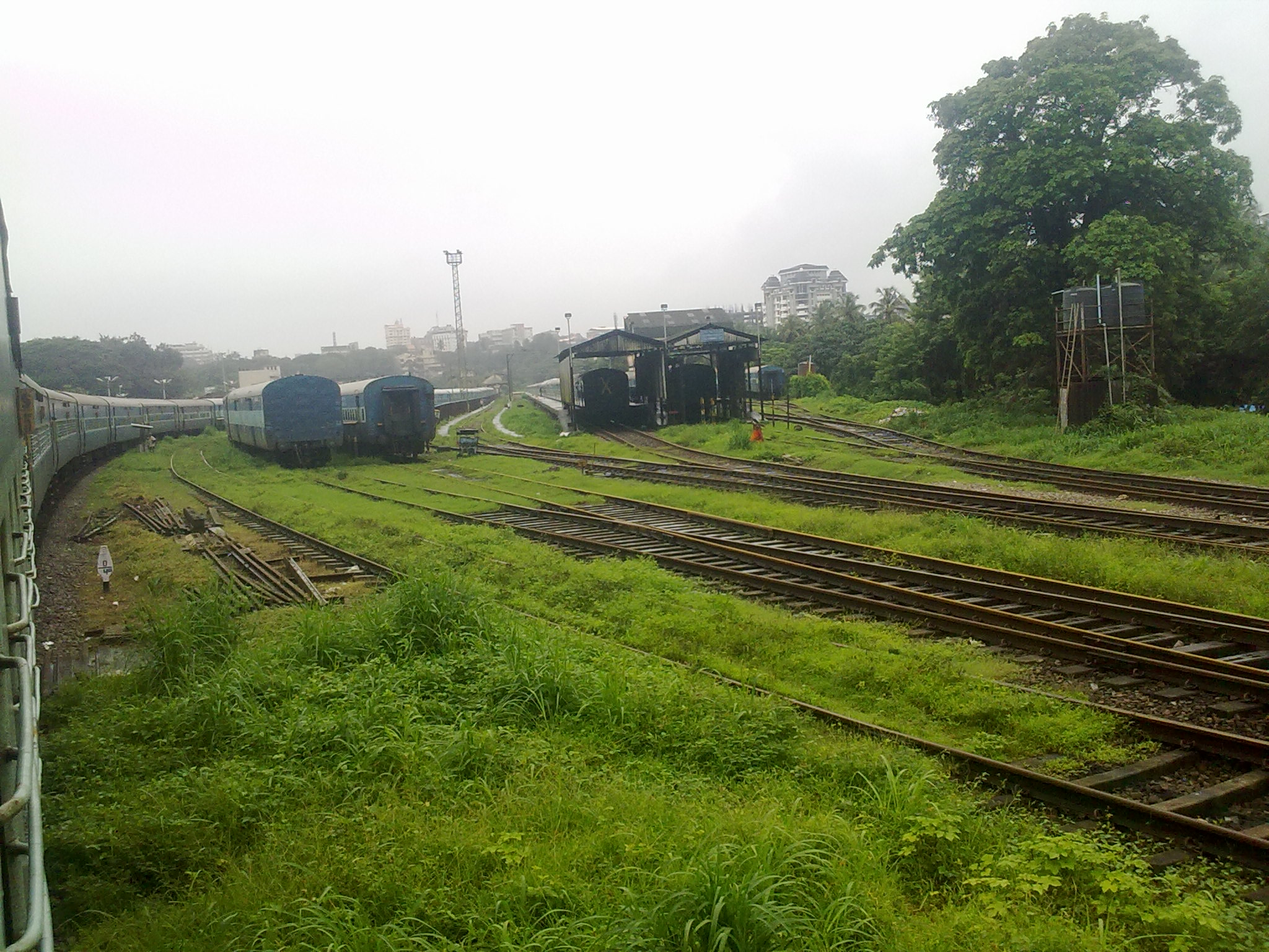 Mangalore Central Station marshalling yard from seen from a train